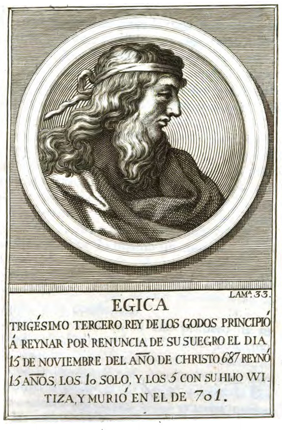 A poster of EGICA, Visigoth king, n° 32 in the chronological order of the book digitalized by Google since the bookshop in the University of Oxford.